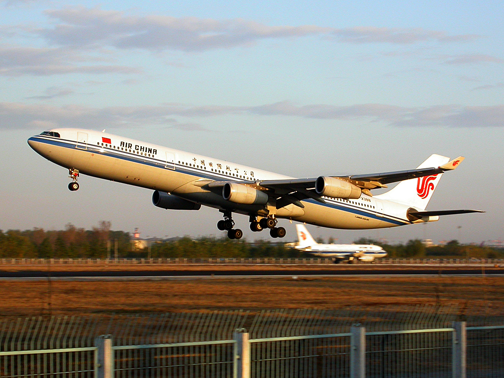 Air China's Airbus A340 (B-2388) in taking off in Beijing Capital Airport. Taken on Dec 4, 2004.